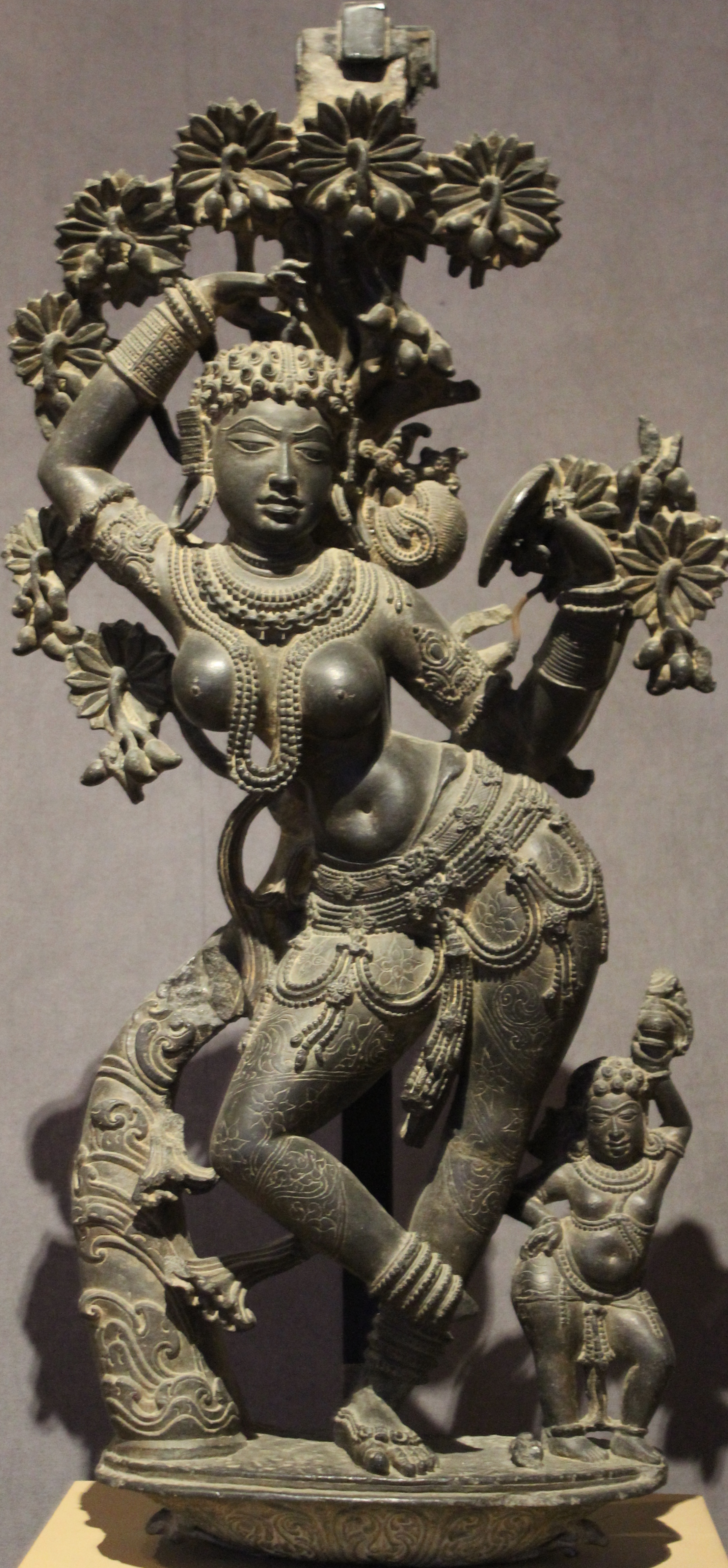 Vishnus form of Mohini